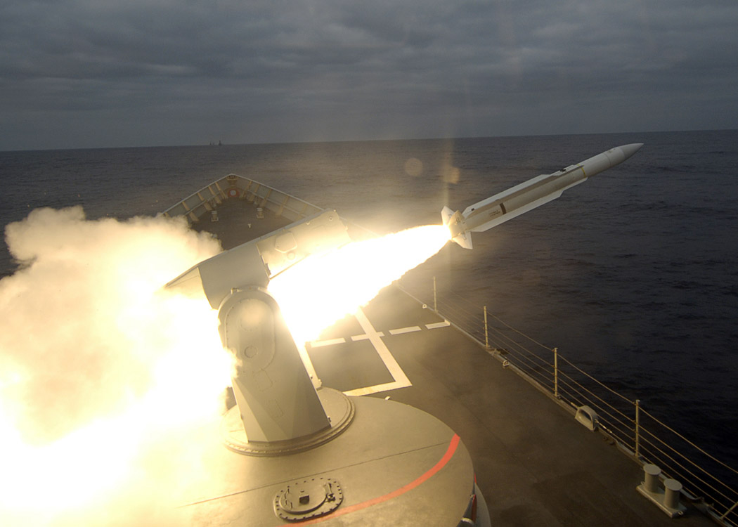 A launching Standard Missile surface-to-air missile. 060730-N-8977L-012 Pacific Ocean (July 30, 2006) - The Spanish frigate FFG Canaras participates in a Missile exercise during the UNITAS Pacific Phase exercise. UNITAS is an annual exercise in the South American region. This year’s Pacific phase, hosted by Chile, includes navies from seven countries Chile, Colombia, Ecuador, Mexico, Peru, Spain and the United States. The exercise is designed to train each navy in a variety of maritime scenarios, with each operating as a component of the multinational force. U.S. Navy photo by Mass Communication Specialist 2nd Class Johansen Laurel (RELEASED)